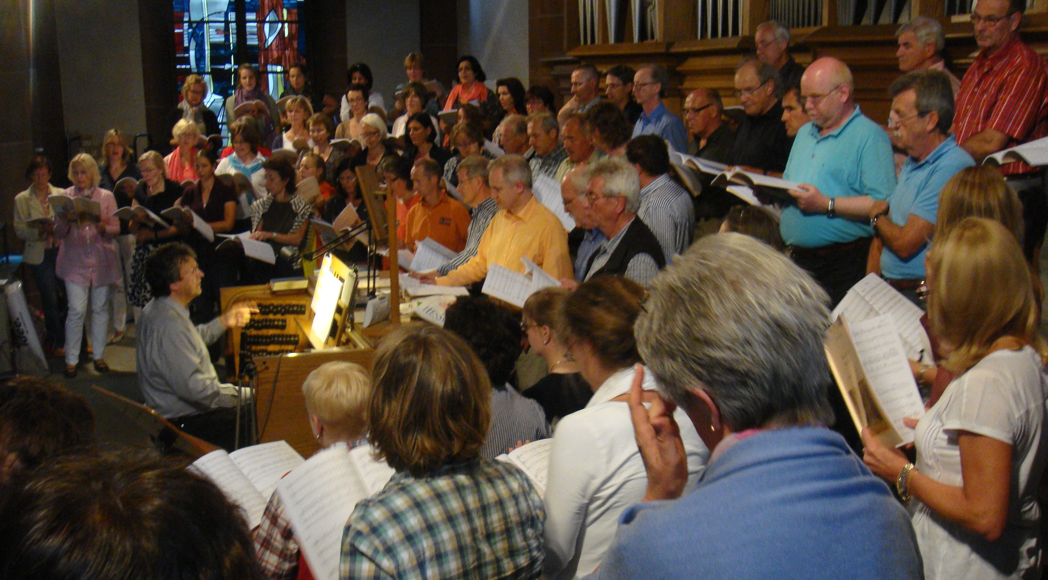 Chor von St. Bonifatius, rehearsing on 1 September 2012 for the premiere of Colin Mawby's Missa solemnis on 3 October 2012